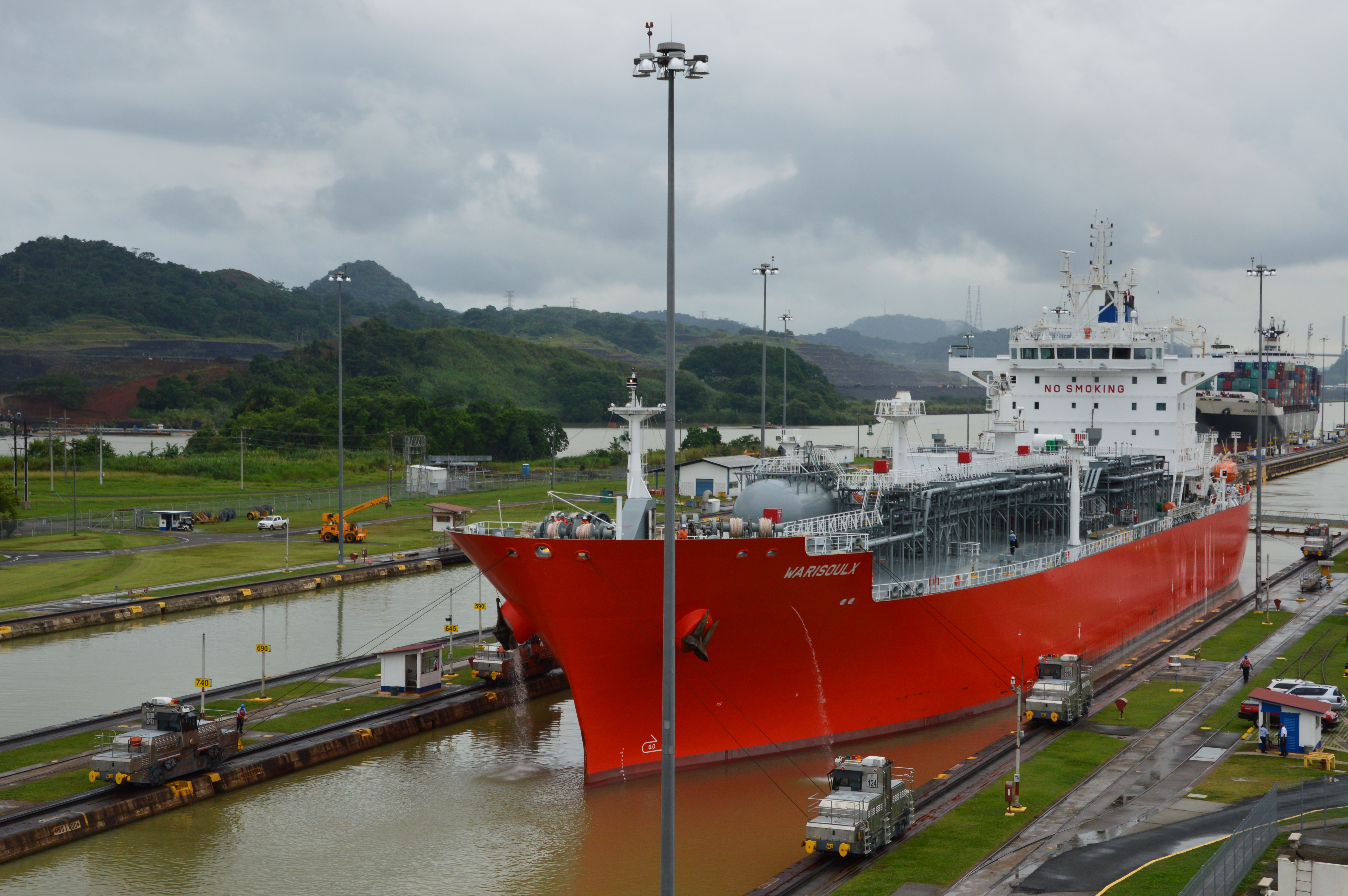 Miraflores Locks in Panama.